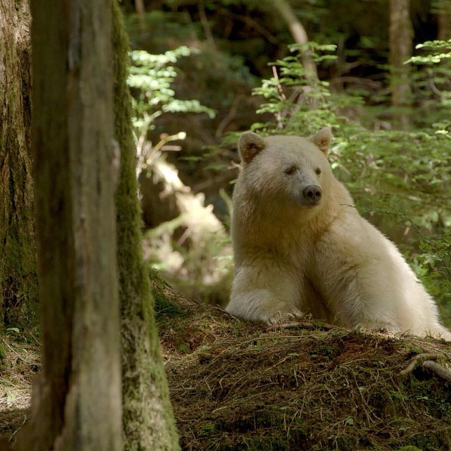 This is spirit bear (screenshot from footage I shot today in the great bear rainforest, BC, Canada)